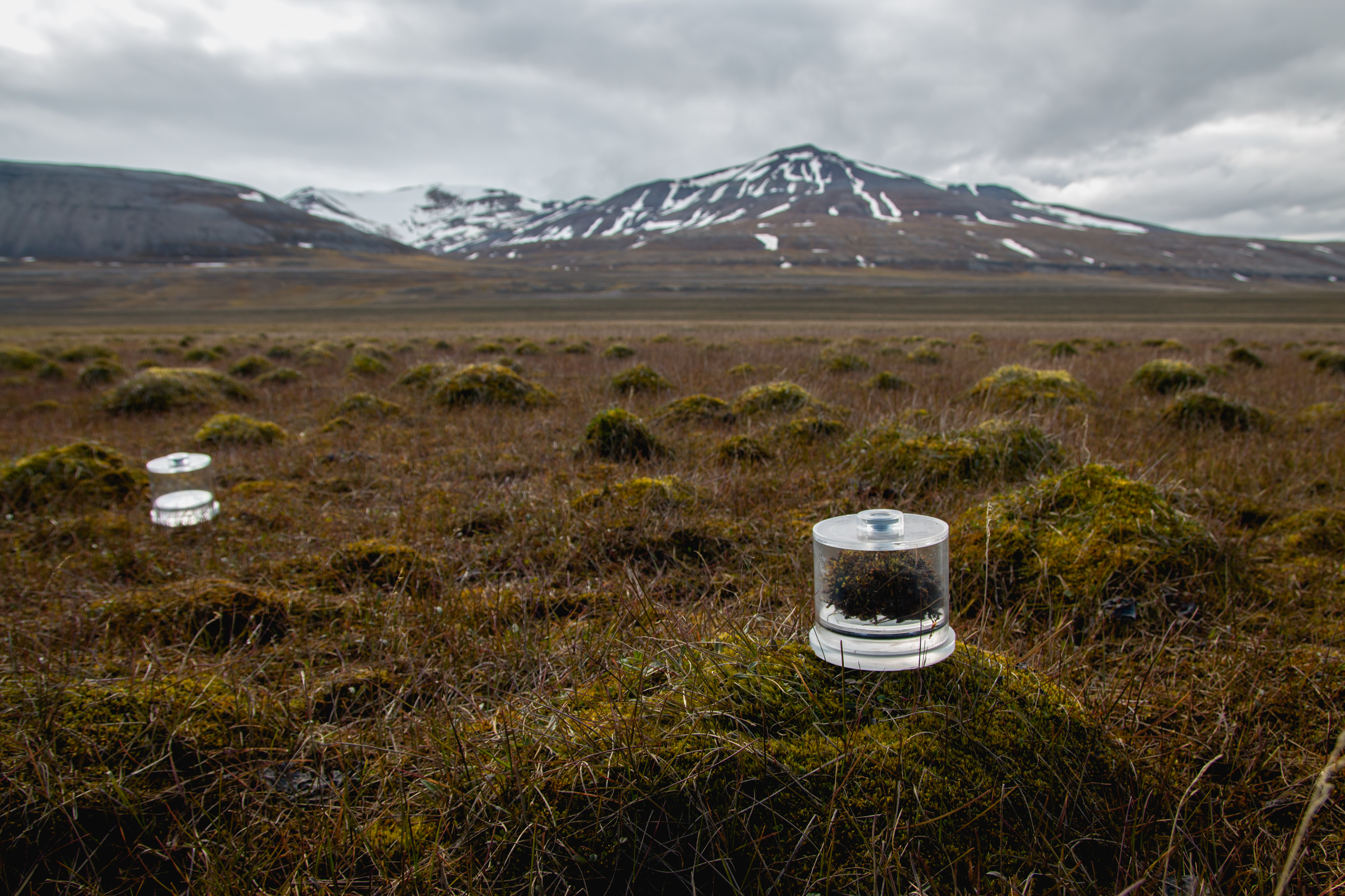 The image shows the incubation chambers in Sassendalen, Svalbard. These chambers are used to indirectly assess Cyanobacteria's capability to fix N2 by enzyme nitrogenase.